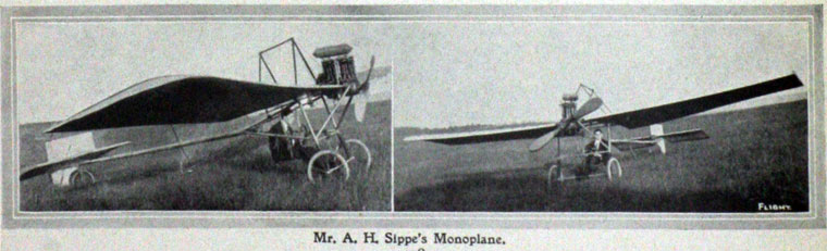 Steel tubing monoplane invented by Sippe brothers et al. 1909-10